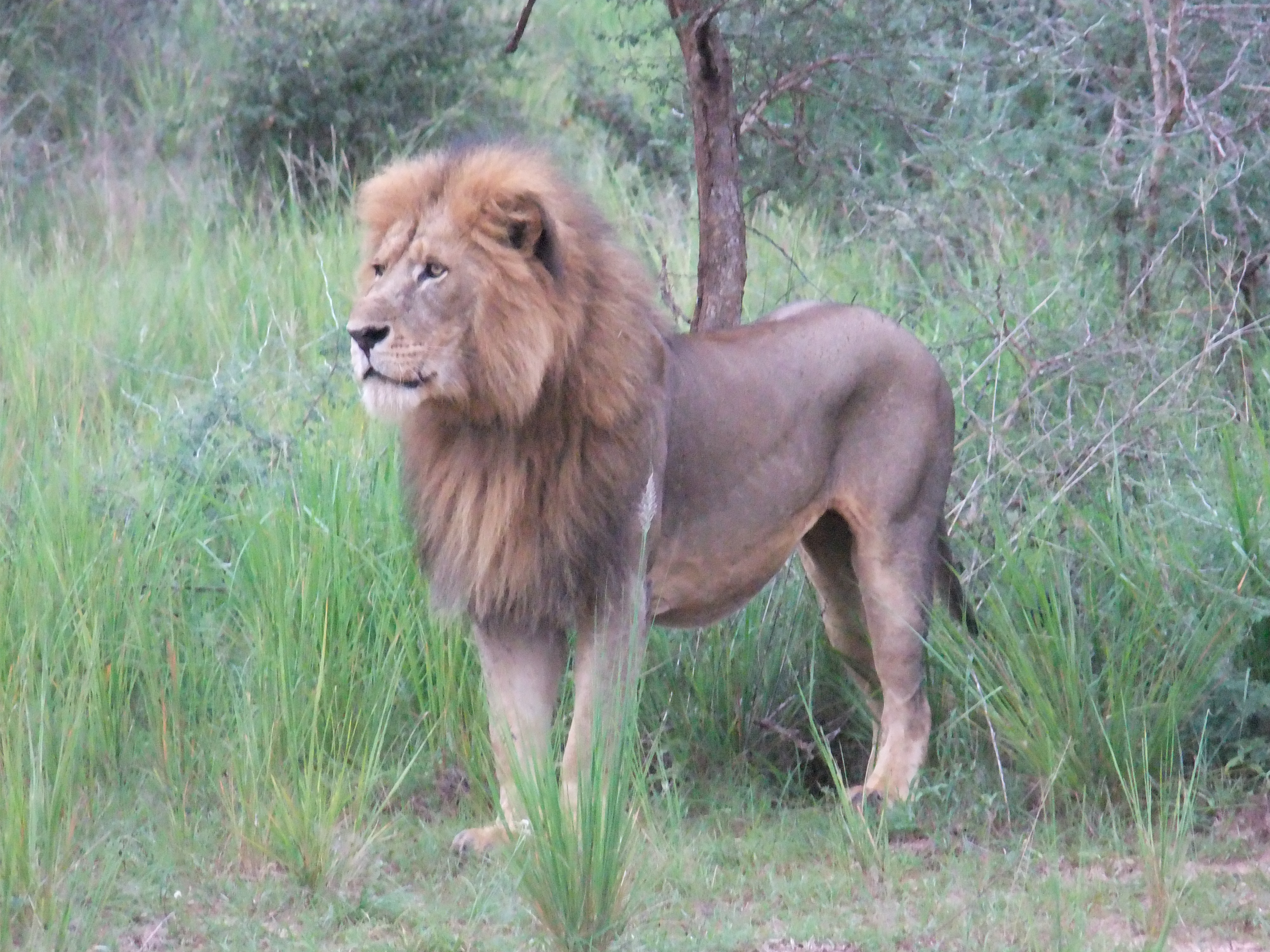 In Murchison Falls National Park, Uganda